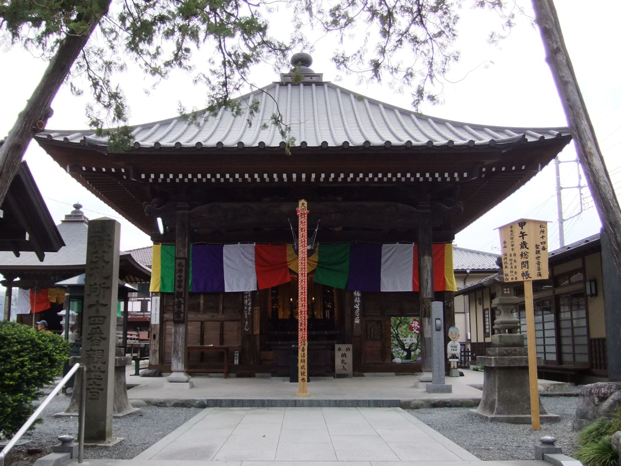 Kannon hall of Imamiya-bō temple in Chichibu, Saitama Prefecture, Japan